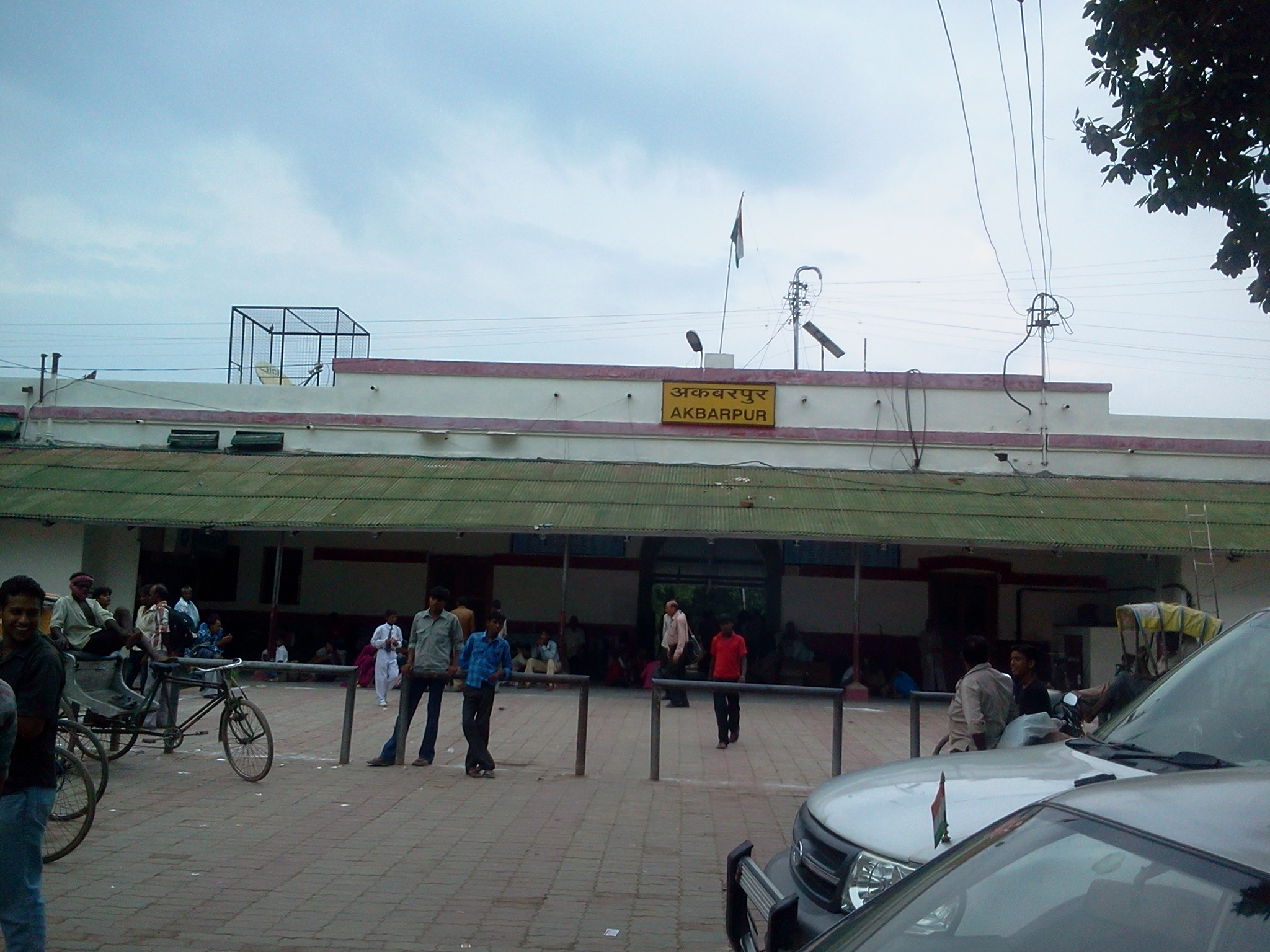 akbarpur jn